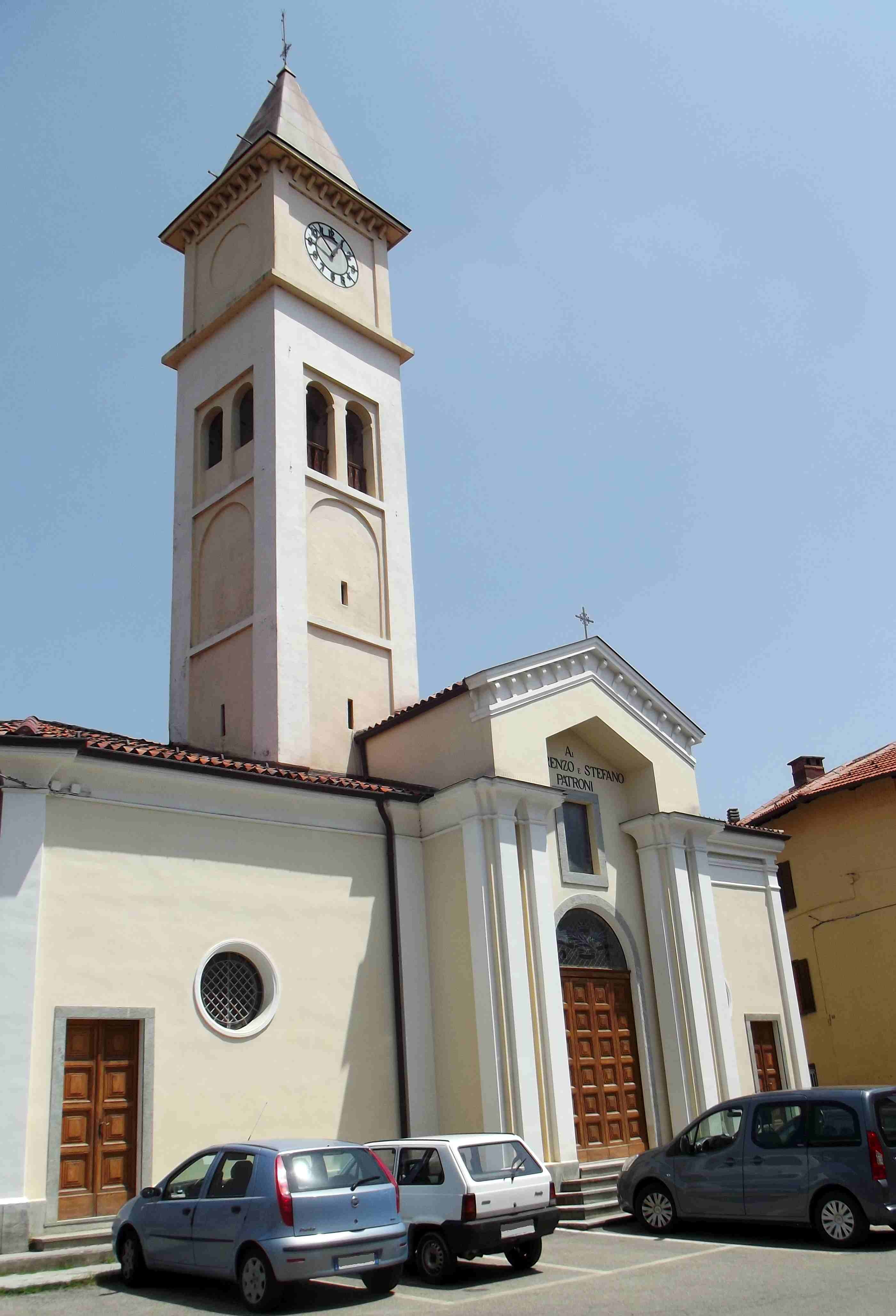 Grosso (TO, Italy): parish church